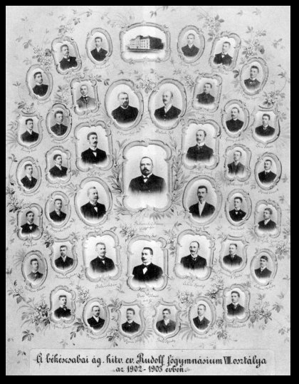 The first final-exam in 1903